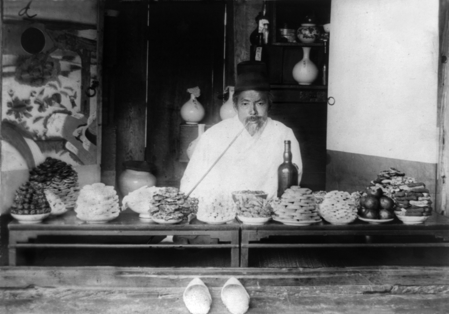 Korean man at a food shop in Seoul, Korea smoking long pipe behind food on counter. Photo taken/published between 1890 and 1923. From Frank and Frances Carpenter Collection.